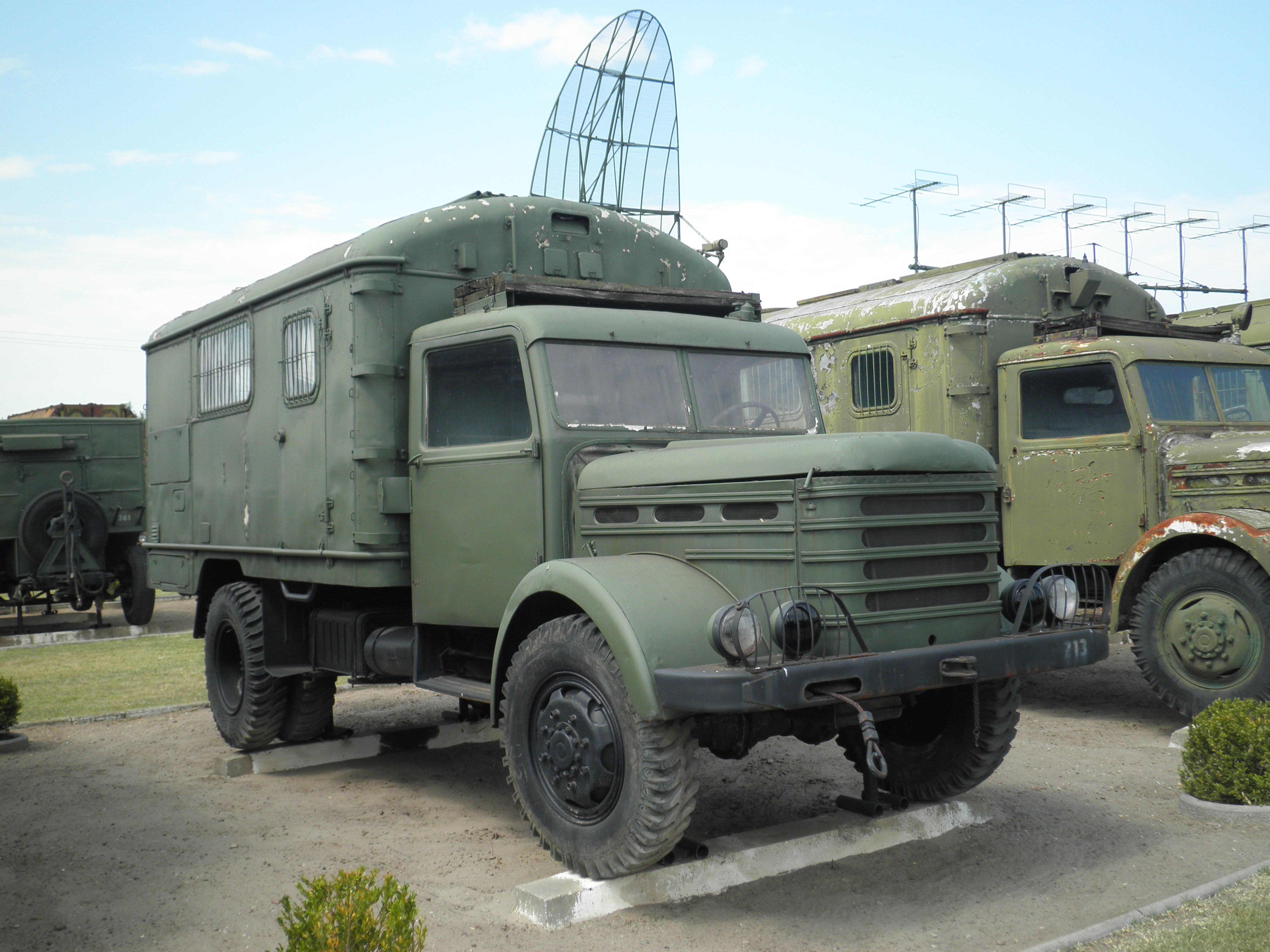 Csepel D-344 in Army History Museum and Park in Kecel, Hungary